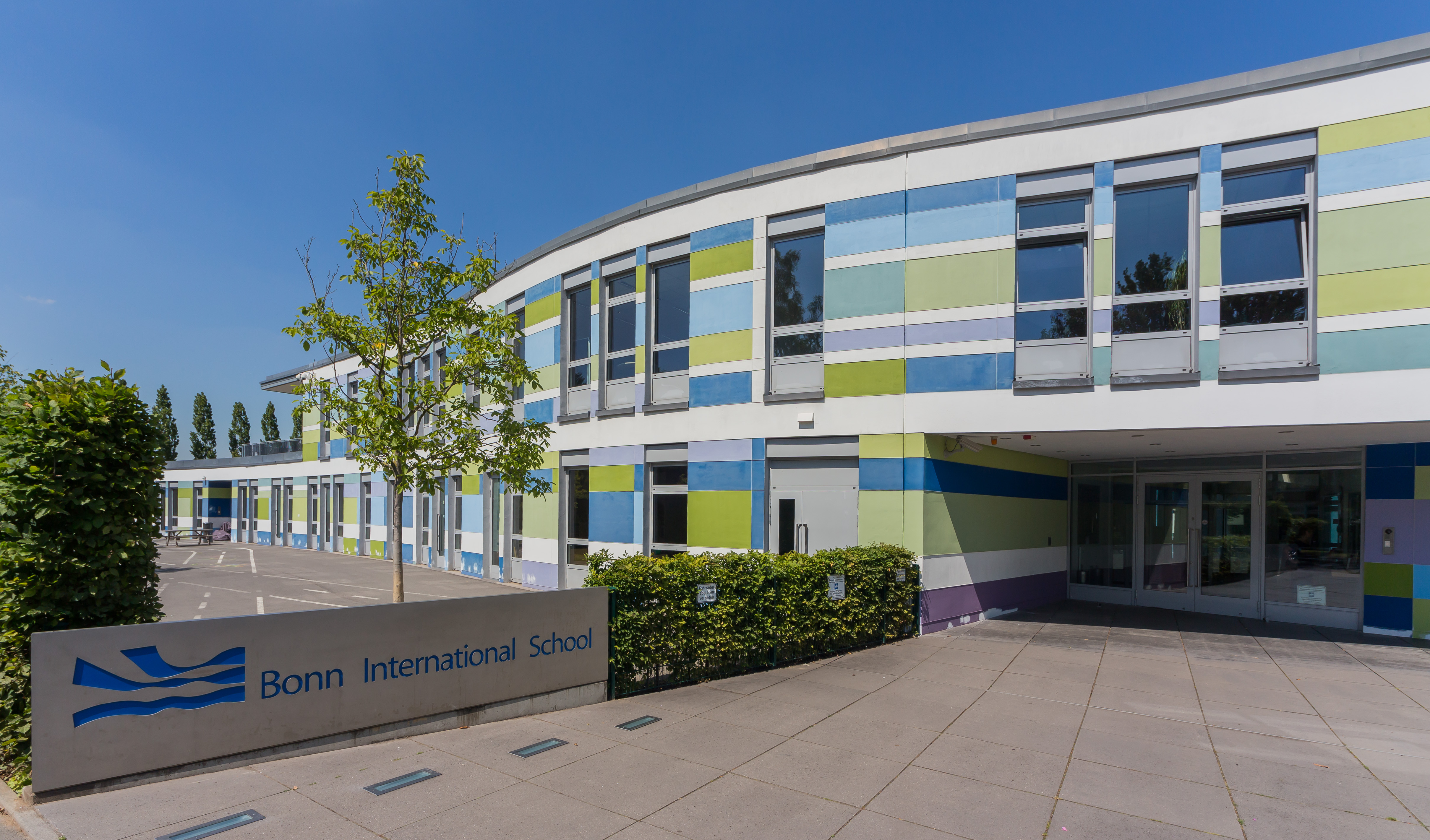 Building “Waves” (built in 2006) of Bonn International School, Martin-Luther-King-Straße 14, Bonn-Plittersdorf